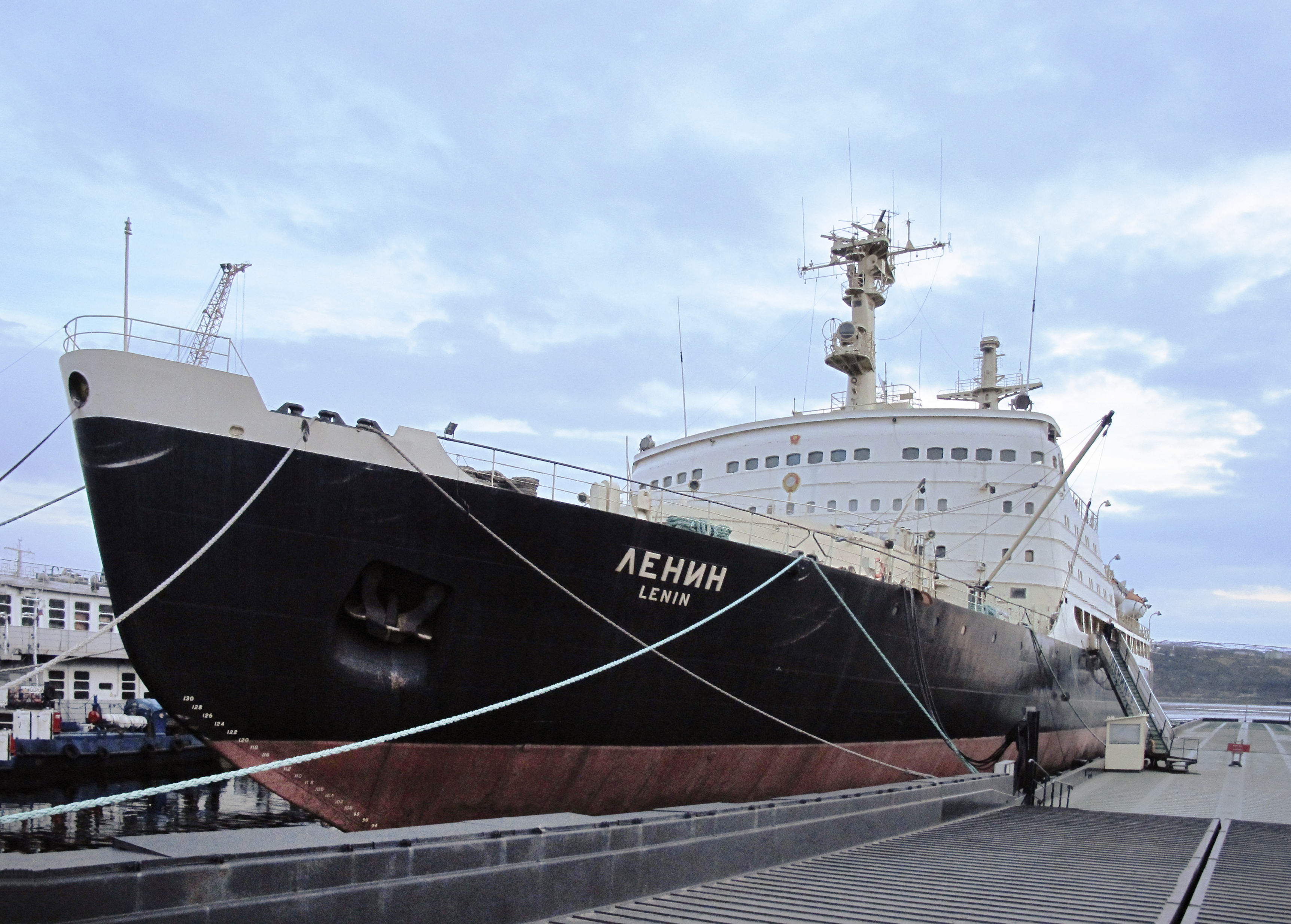 Icebreaker Lenin in Murmansk, 2010.